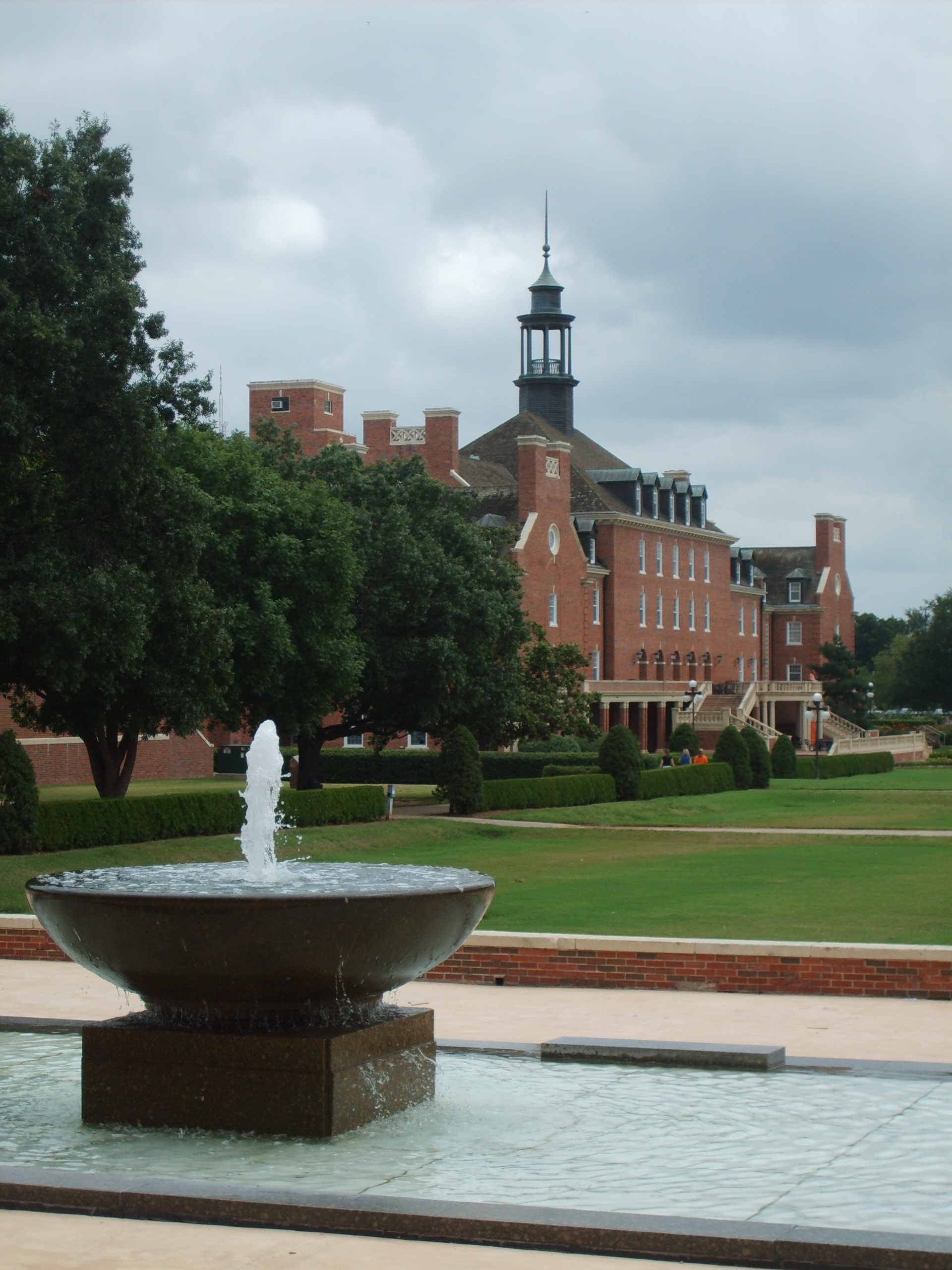 Photo of exterior view of the Student Union building from the front of Edmon Low Library at Oklahoma State University, Stillwater, OK, USA